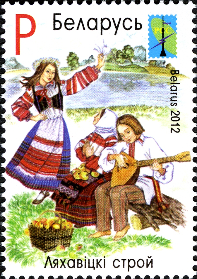 Stamp of Belarus